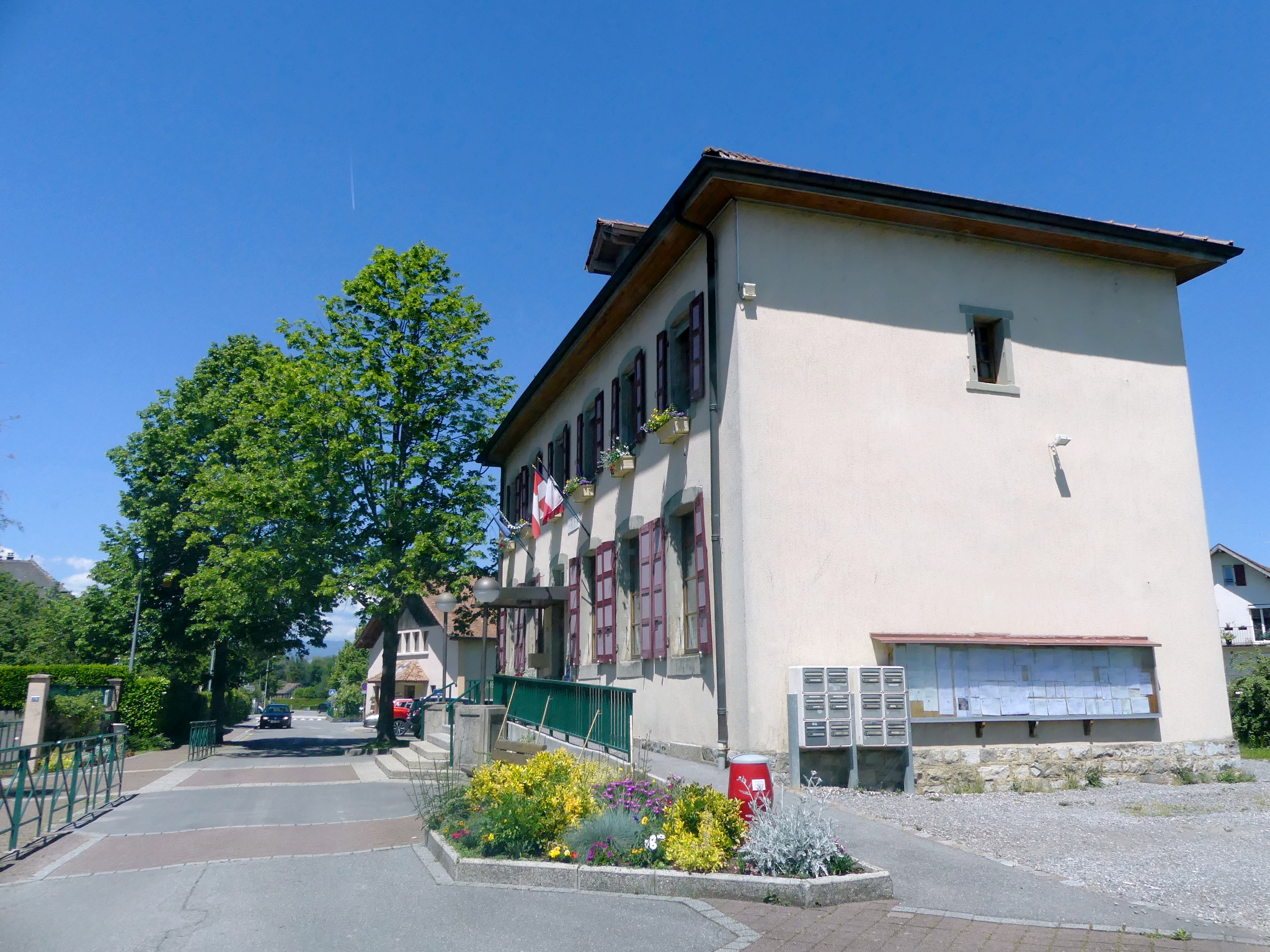 Sight of Excenevex town hall, in Haute-Savoie, France.